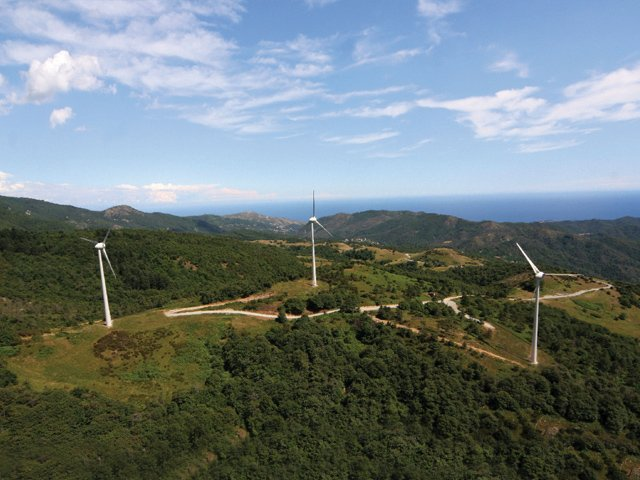 The FERA wind farm in Stella (Liguria region, Italy, close to the Ligurian Sea coast) is equipped with three Enercon E-48 WECs (Wind Energy Converters). The wind farm won the PIMBY award for its optimal integration with environment.